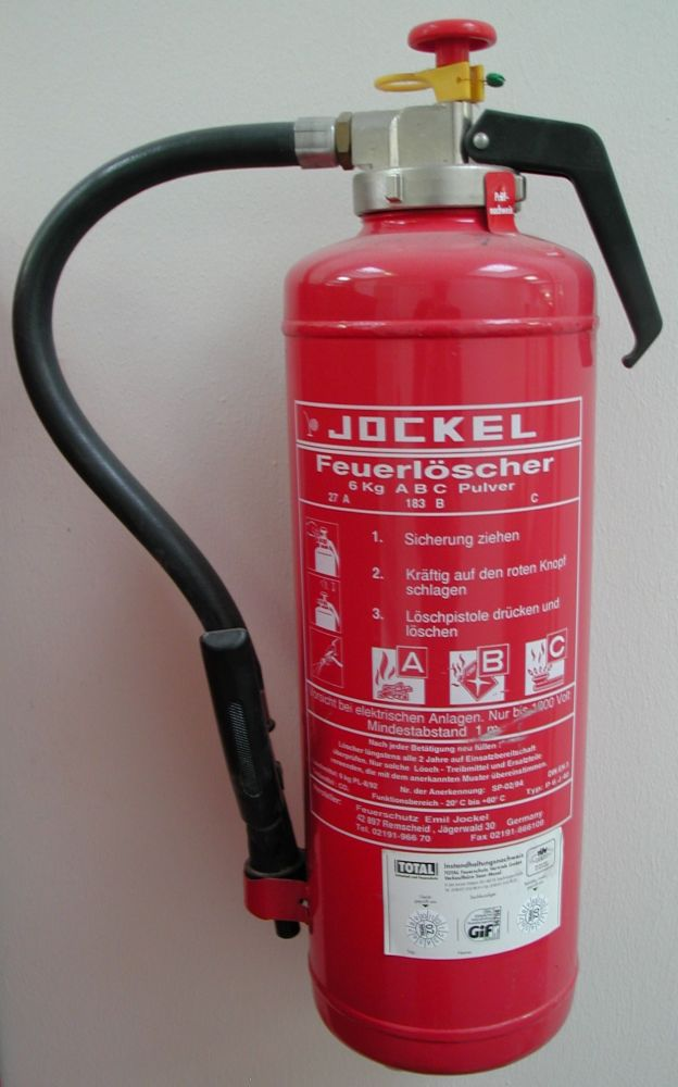 English description